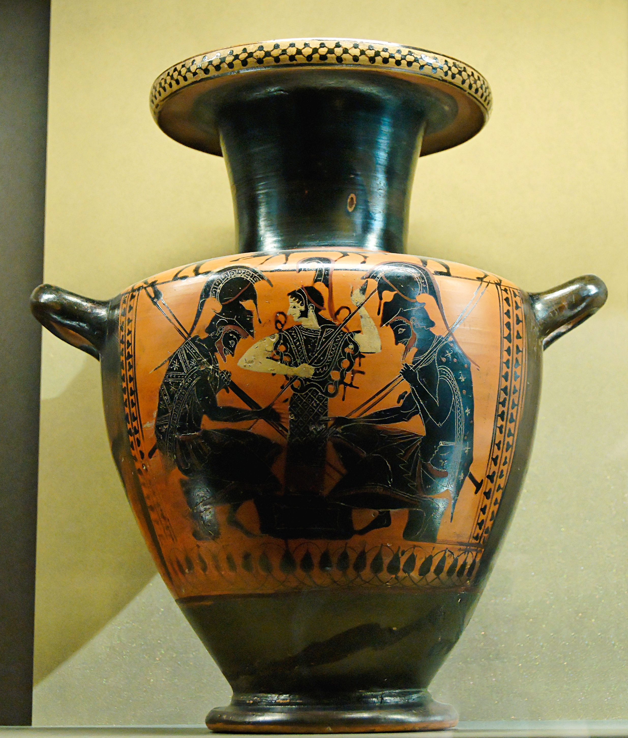 Achilles and Ajax playing dice as Athena looks on. Side A from an black-figure Attic hydria, ca. 520–510 BC.